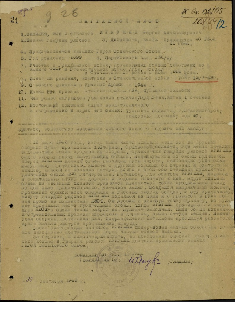 Sergej Kukunin award nomination, page #1.